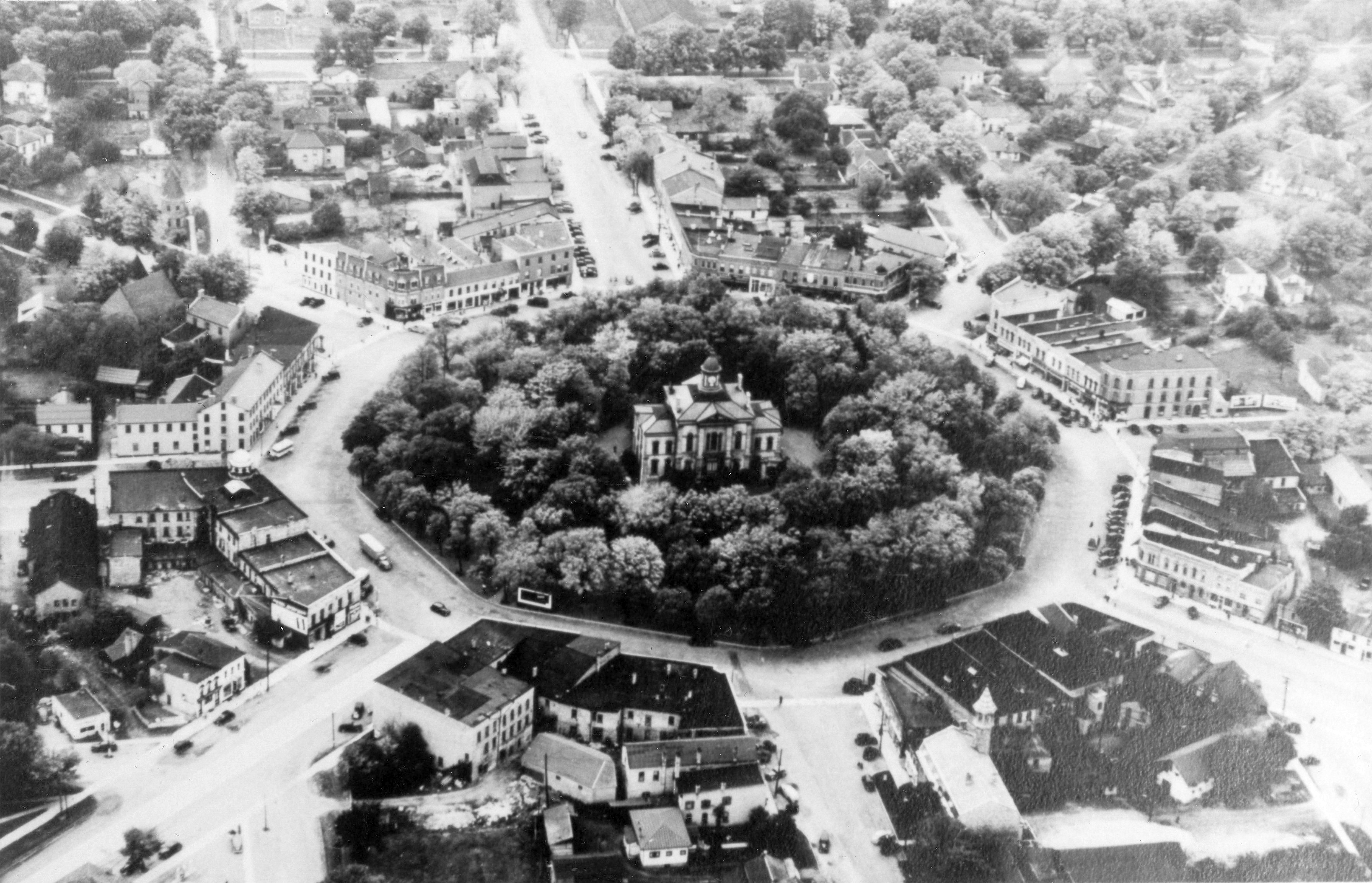 Black and white aerial photograph of The Square in Goderich,Ontario. Photograph shows the old courthouse.